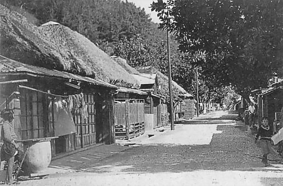 Ogasawara Islands in the Pre-war Showa era